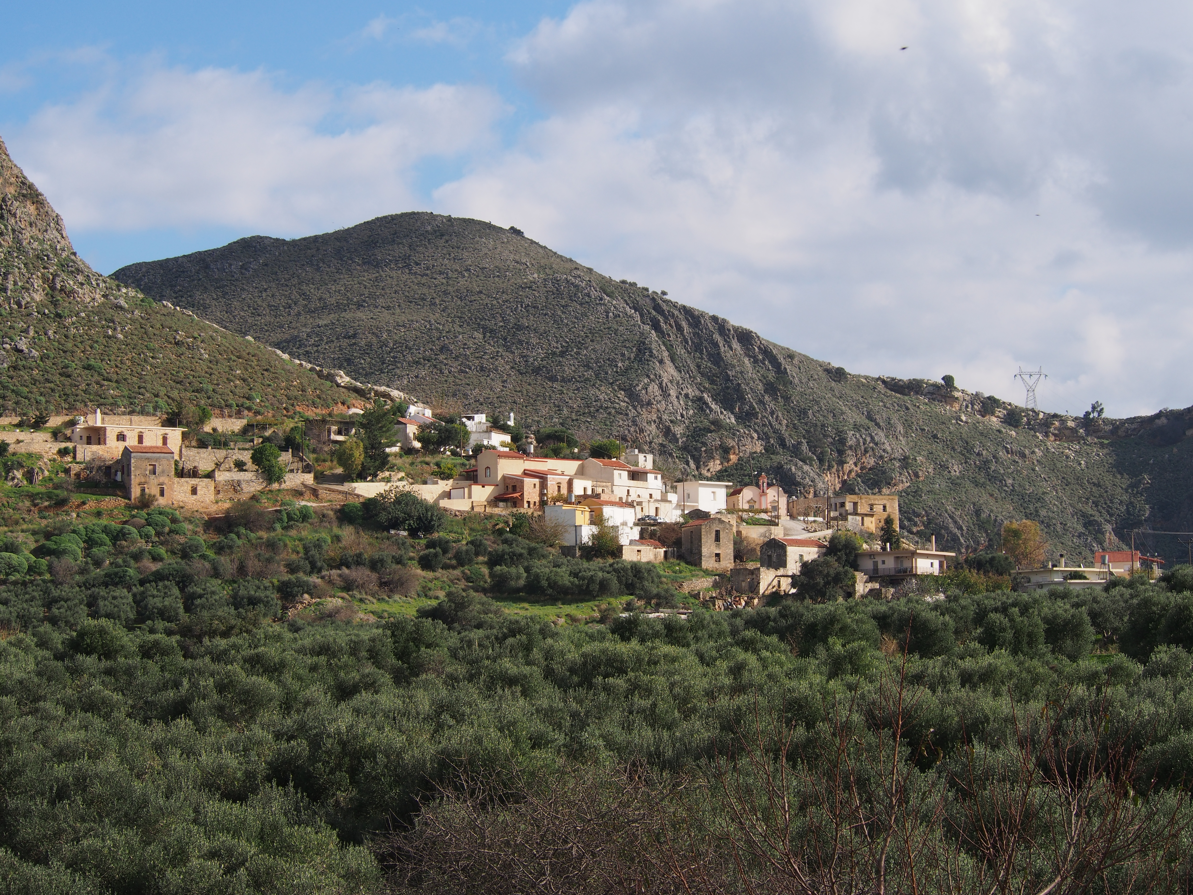 The village of Rocca, near Kisamos, Crete, as seen from west